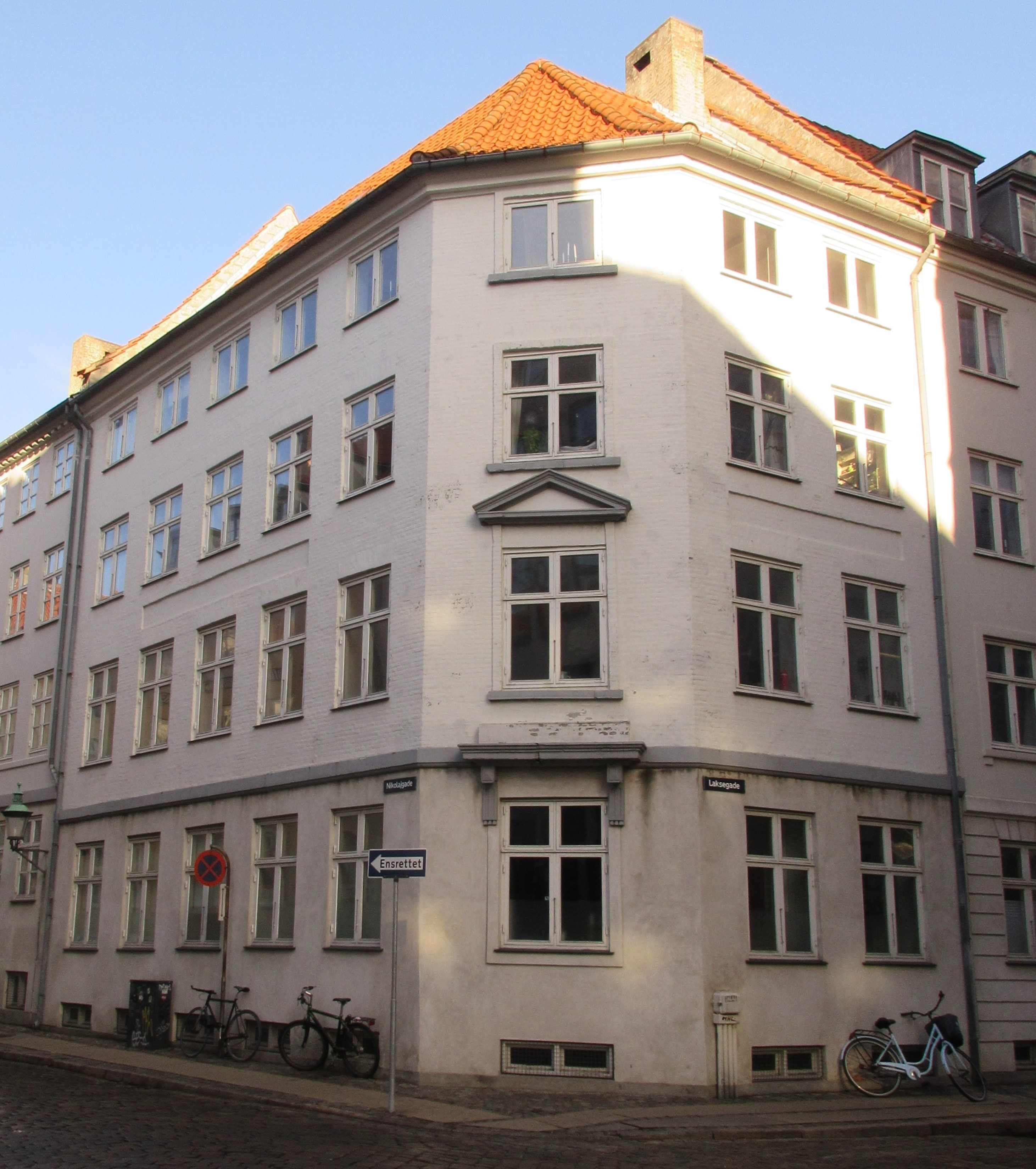 Laksegade 26 in Copenhagen, Denmark